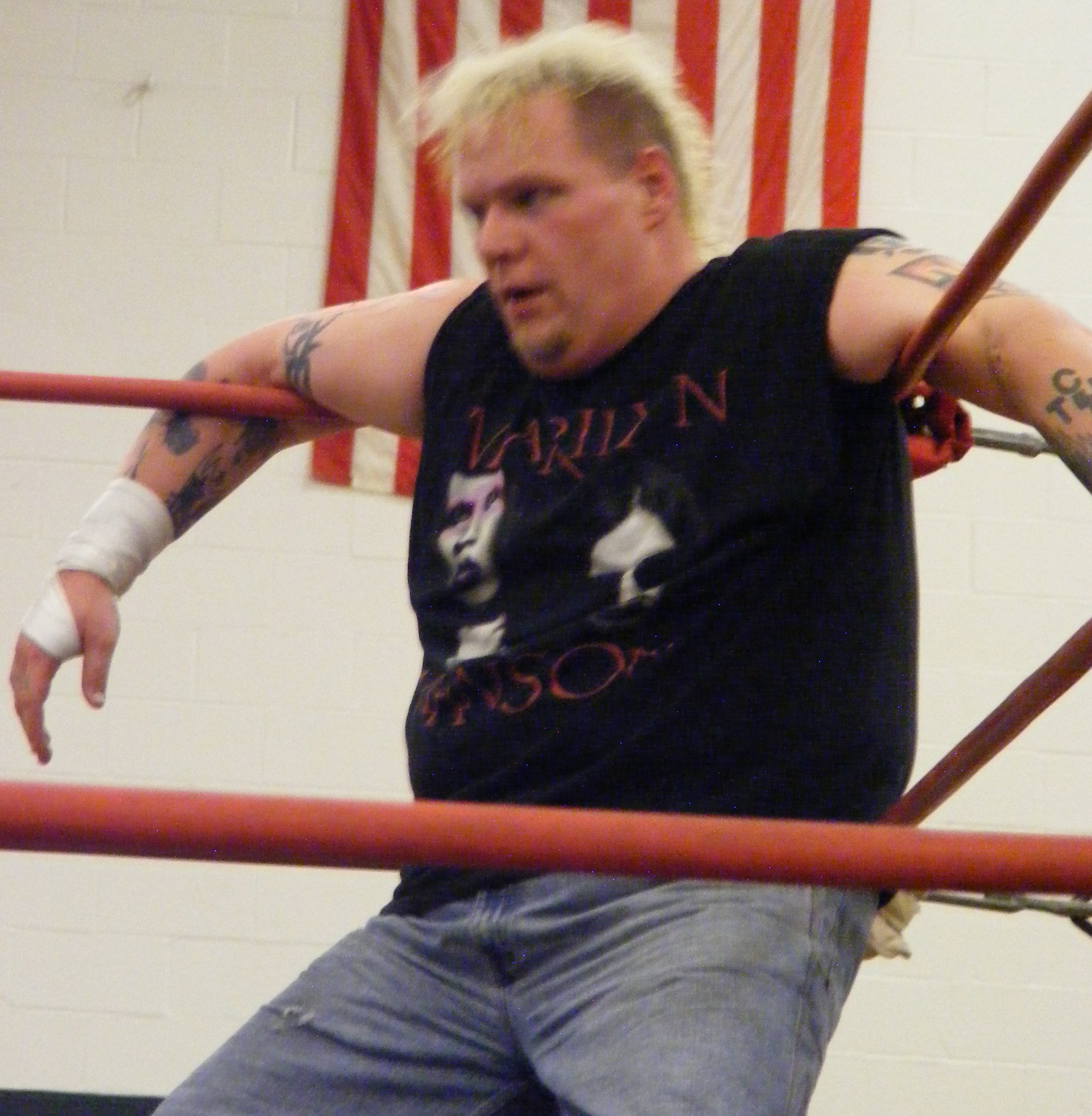 Professional wrestler Axl Rotten in April 2009.